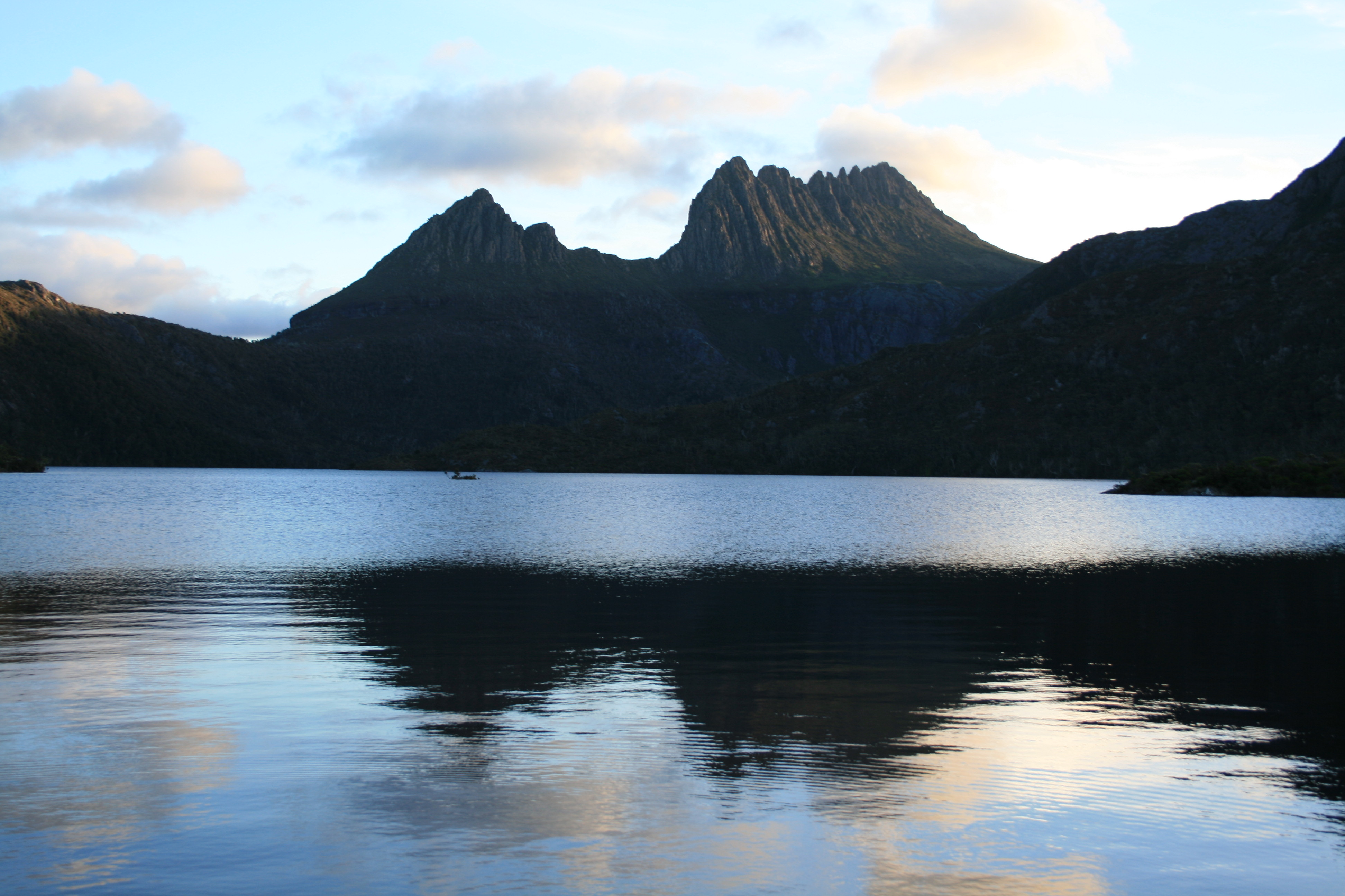 Cradle Mountain, Cradle Mountain National Park, Tasmania, Australia